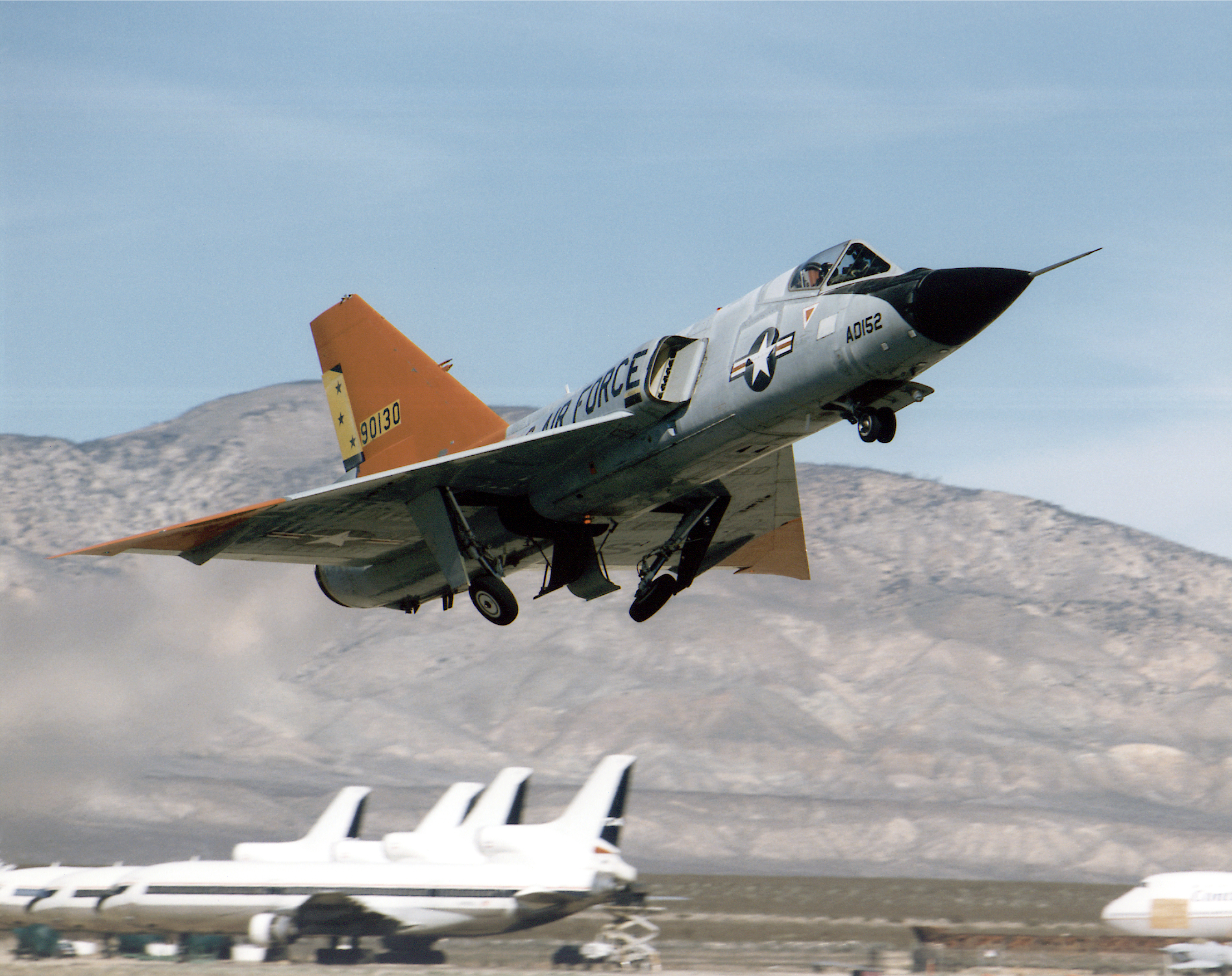 Eclipse program QF-106 Delta Dart taking off from Mojave Airport in California. Project Description: In 1997 and 1998, the Dryden Flight Research Center at Edwards, California, supported and hosted a Kelly Space & Technology, Inc. project called Eclipse, which sought to demonstrate the feasibility of a reusable tow-launch vehicle concept. The project goal was to successfully tow, inflight, a modified QF-106 delta-wing aircraft with an Air Force C-141A transport aircraft. This would demonstrate the possibility of towing and launching an actual launch vehicle from behind a tow plane. Dryden was the responsible test organization and had flight safety responsibility for the Eclipse project. Dryden provided engineering, instrumentation, simulation, modification, maintenance, range support, and research pilots for the test program. The Air Force Flight Test Center (AFFTC), Edwards, California, supplied the C-141A transport aircraft and crew and configured the aircraft as needed for the tests. The AFFTC also provided the concept and detail design and analysis as well as hardware for the tow system and QF-106 modifications. Dryden performed the modifications to convert the QF-106 drone into the piloted EXD-01 (Eclipse eXperimental Demonstrator–01) experimental aircraft. Kelly Space & Technology hoped to use the results gleaned from the tow test in developing a series of low-cost, reusable launch vehicles. These tests demonstrated the validity of towing a delta-wing aircraft having high wing loading, validated the tow simulation model, and demonstrated various operational procedures, such as ground processing of in-flight maneuvers and emergency abort scenarios. NASA Photo by